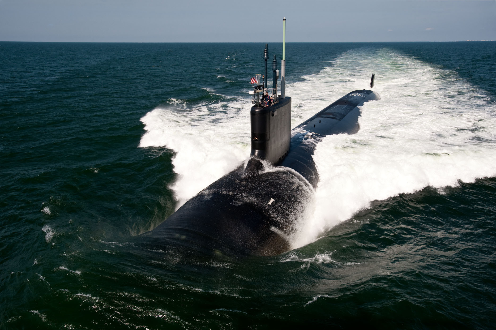 110630-N-ZZ999-002.ATLANTIC OCEAN (June 30, 2011) The Virginia-class attack submarine USS California (SSN 781) underway during sea trials. (U.S. Navy photo by Chris Oxley/Released).